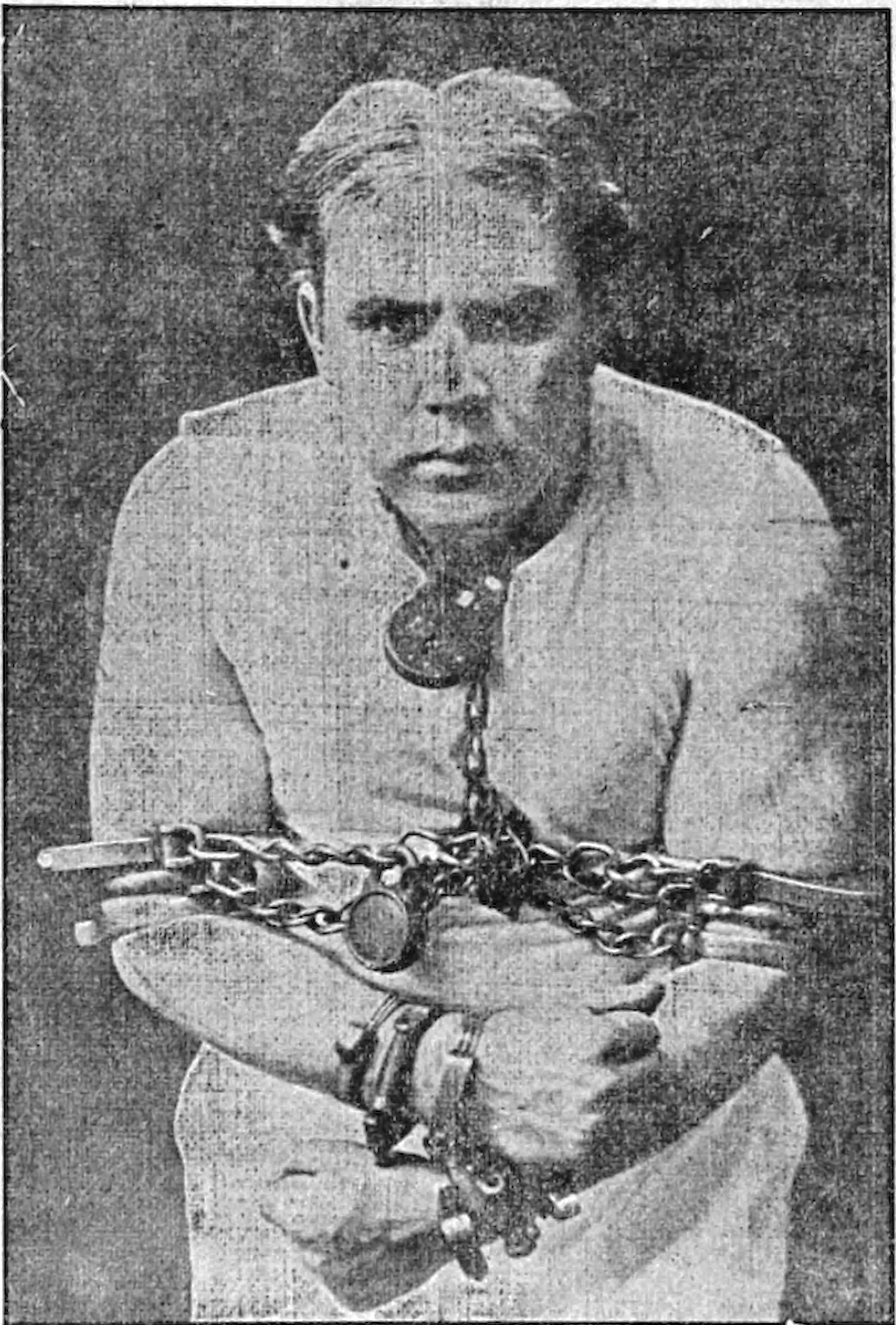 This is an image of Robert 'Bob' Cunningham, also known as Cunning The Jail Breaker